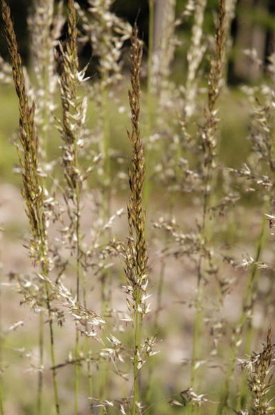 Picture taken in Commanster, Belgian High Ardennes . Species: Calamagrostis arundinacea